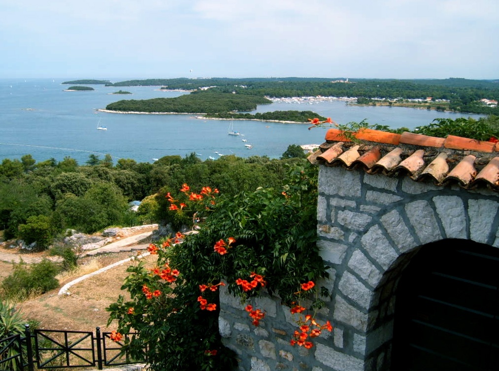 Vrsar, Istria (Croatia) Photographer: Markus Bernet Date: 07/21/2005